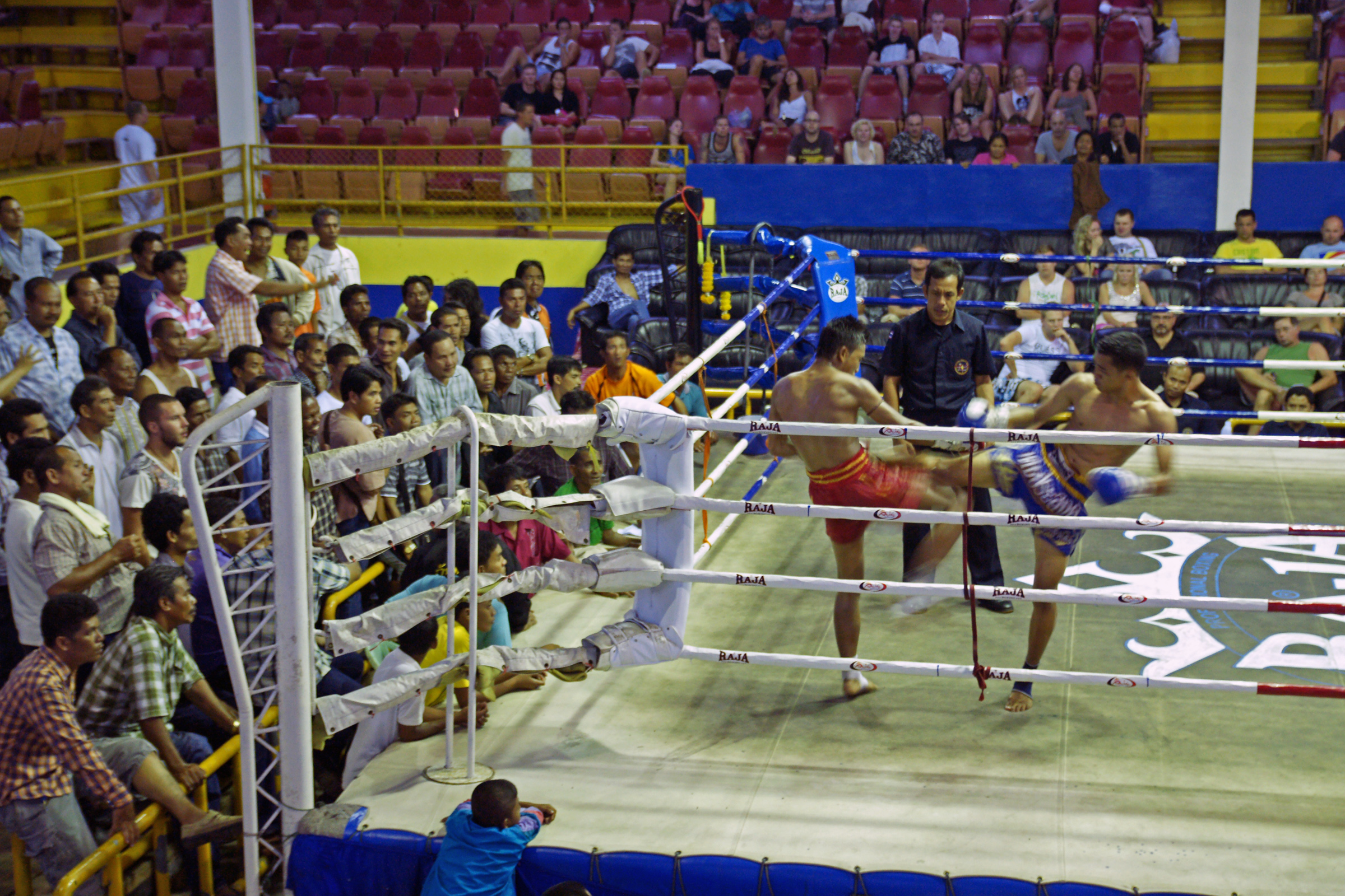 Muay Thai in Aonang Krabi Muay Thai Stadium, Ao Nang, Krabi, Thailand.